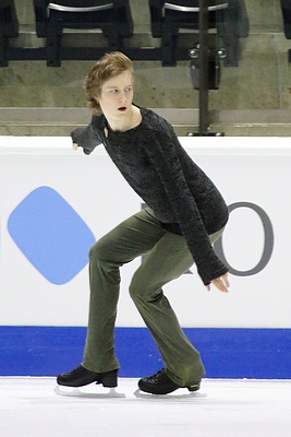 Alexander Samarin at the 2015 World Junior Figure Skating Championships